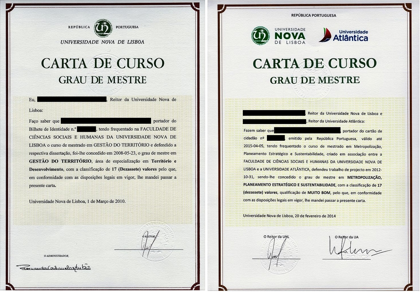 Examples of portuguese (post)graduate (ie. master) diplomas